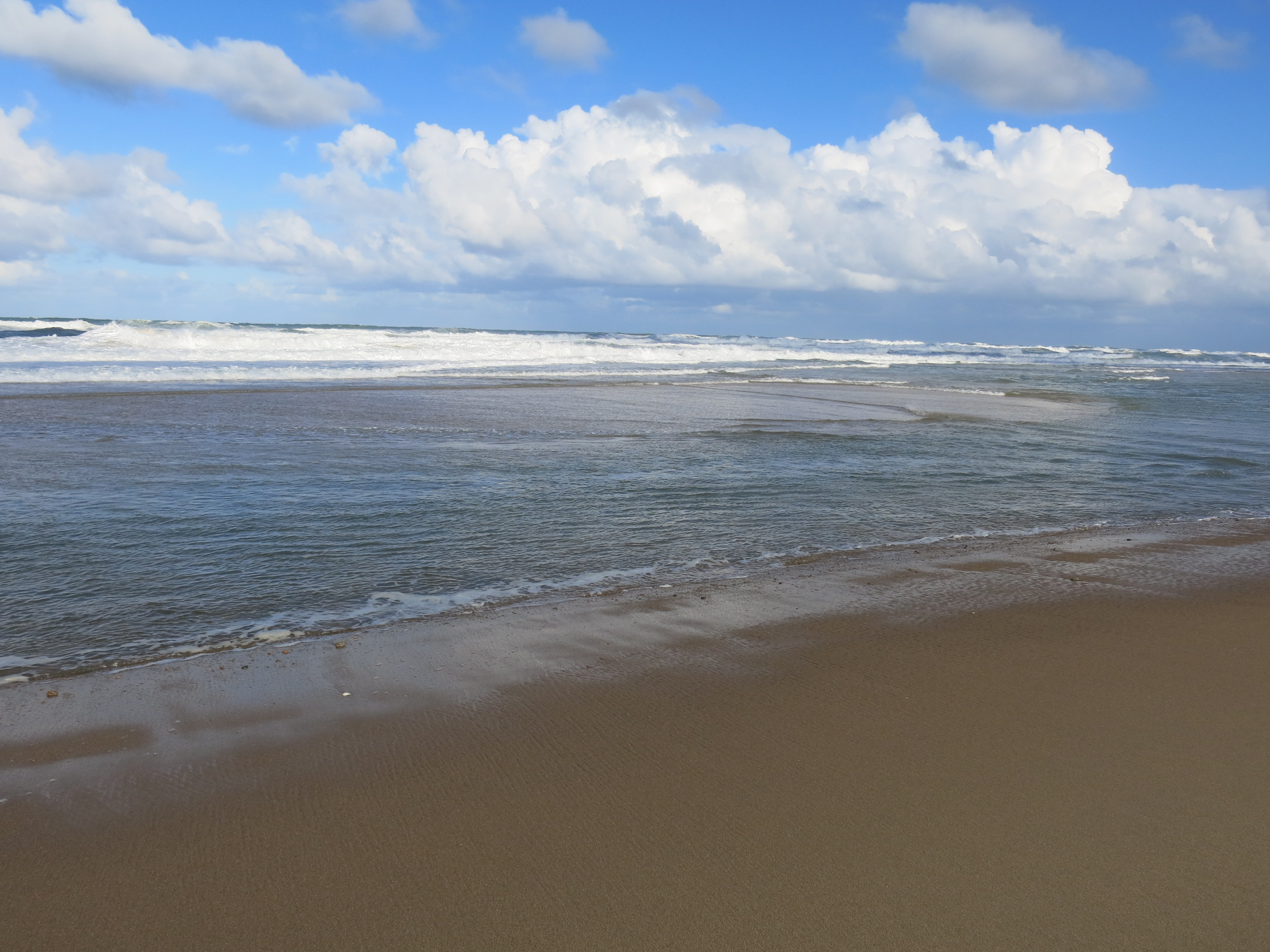 Development of a baïne (dangerous natural pool) in Capbreton (Landes, France).